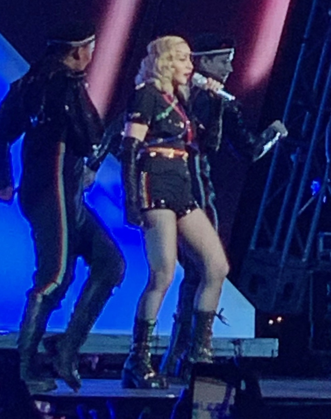 Madonna performing at the Stonewall 50 – WorldPride NYC 2019